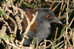 Laterallus jamaicensis